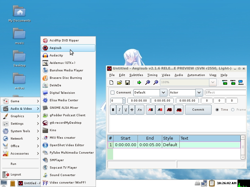 Snapshot of Mangaka Linux running the free software tool for subtitling, Aegisub.